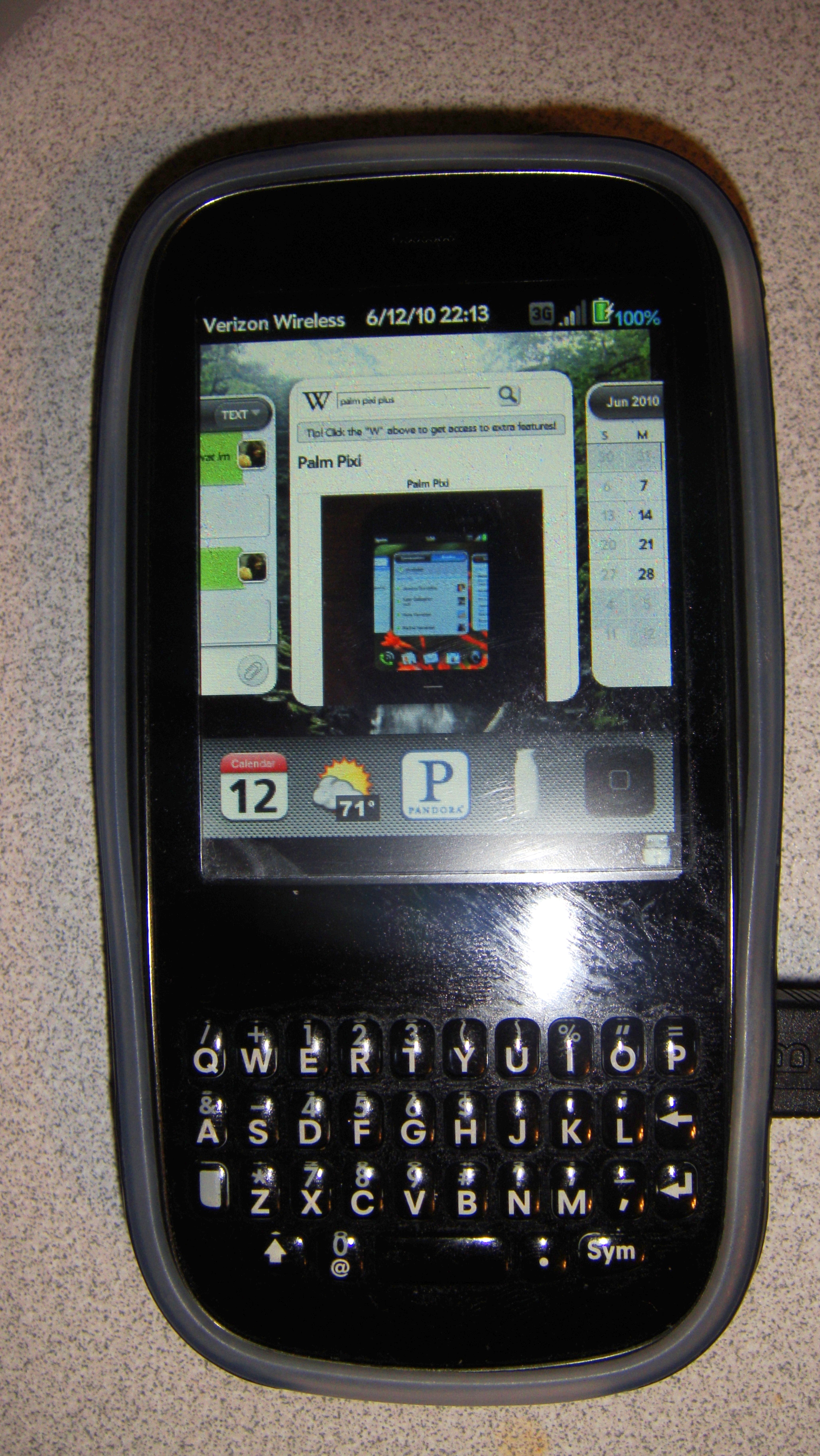 picture of a palm pixi plus